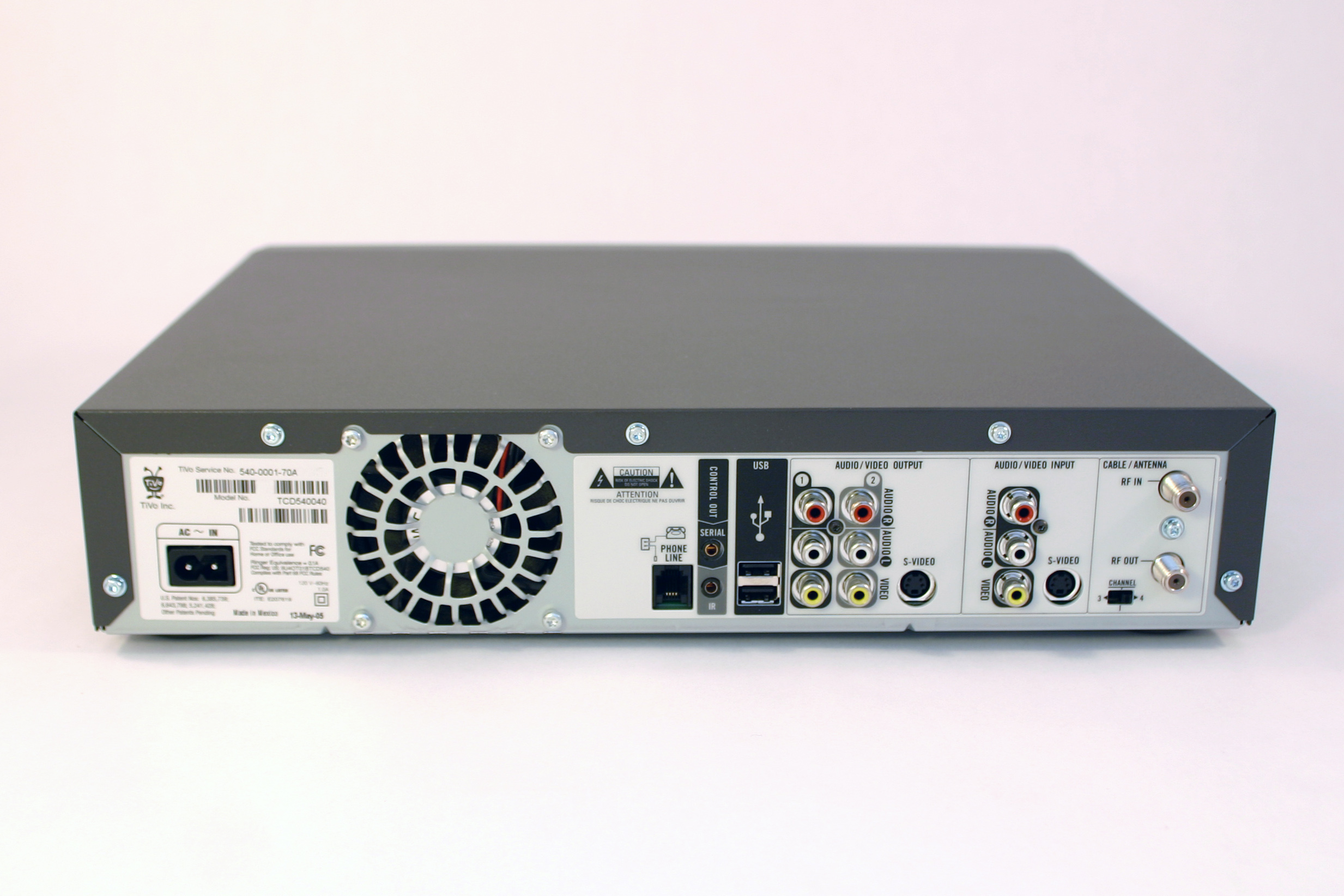 Back view of a Series 2 Tivo unit